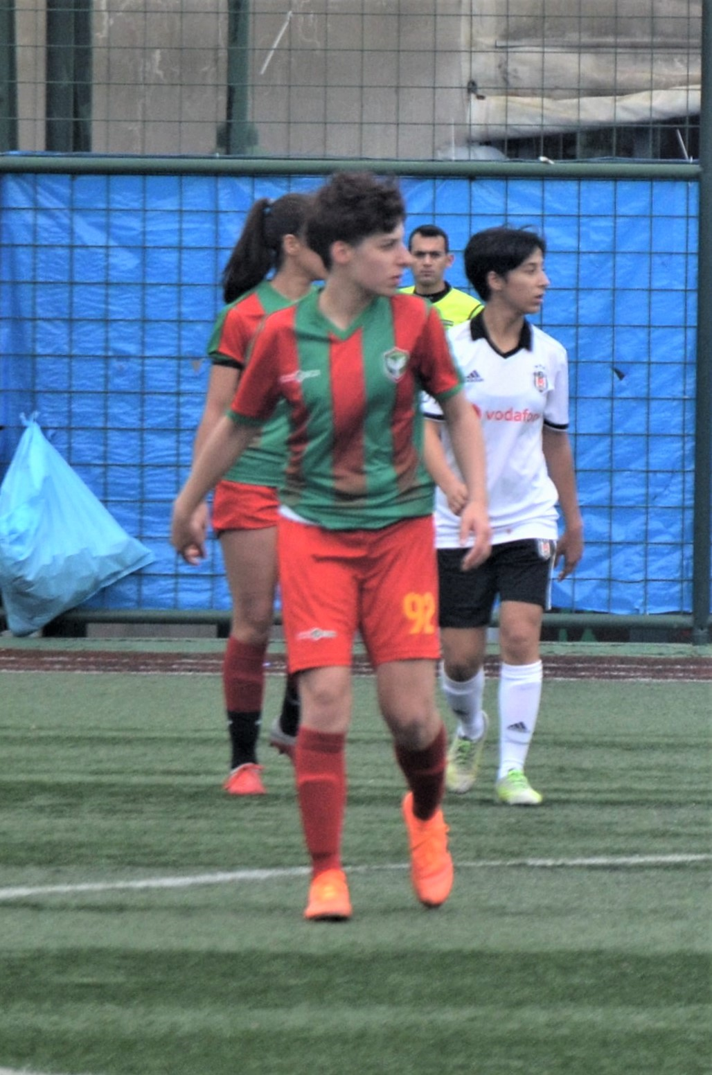 Selin Hasbal of Amed S.K. in the 2018-19 Turkish Women's First League.